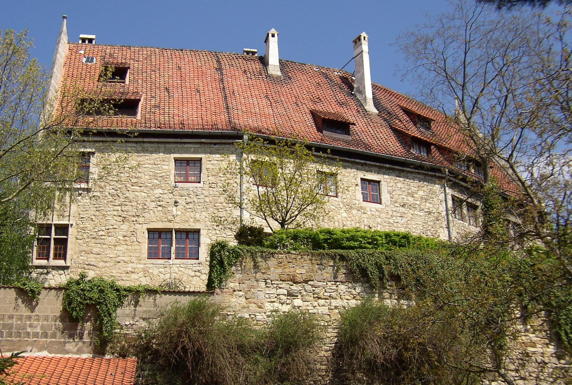 Castle in Hornburg in Lower Saxony, Germany